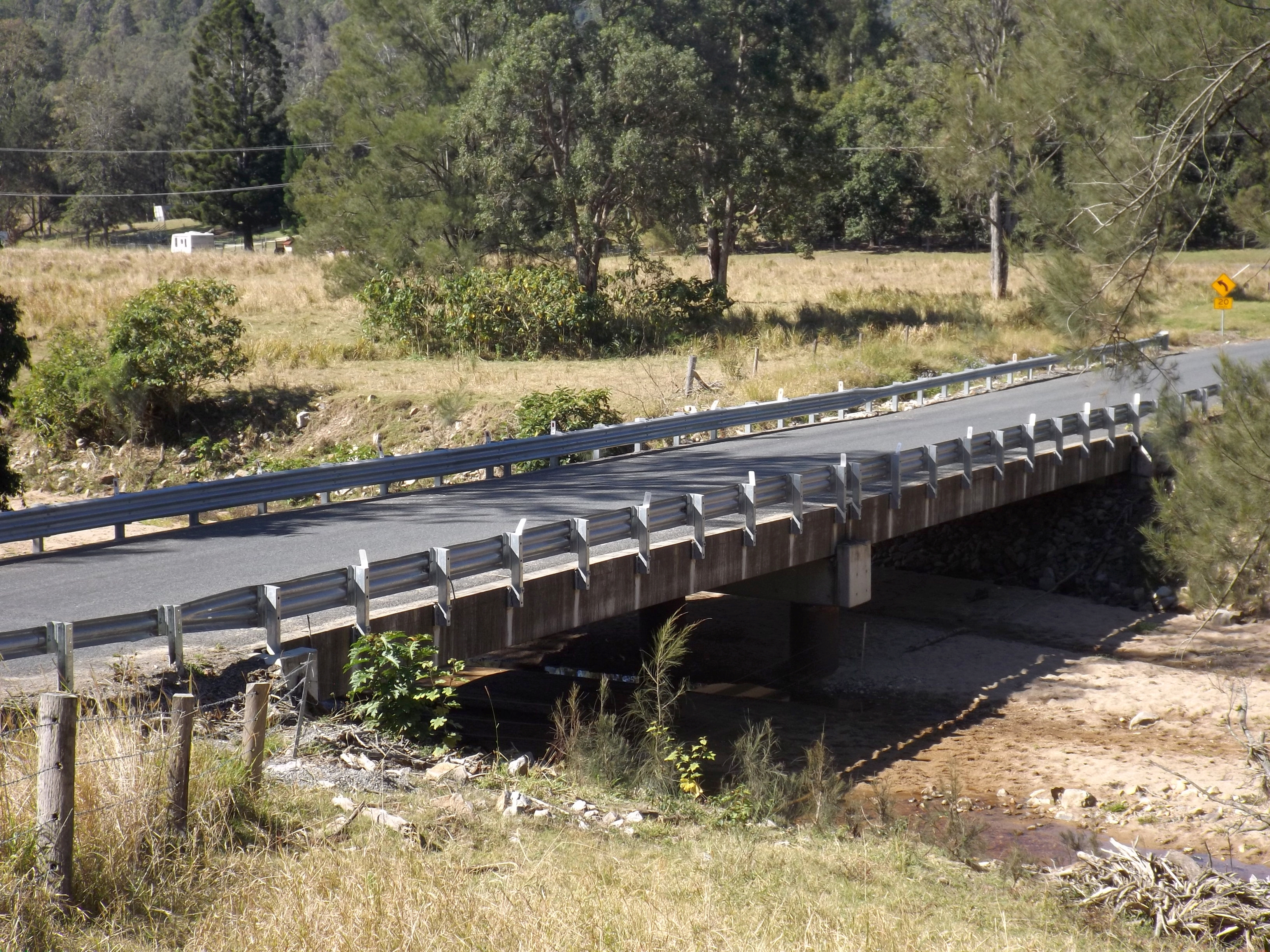 Photo of Hubners Bridge at Sandy Creek, Somerset Region, Queensland, Australia.